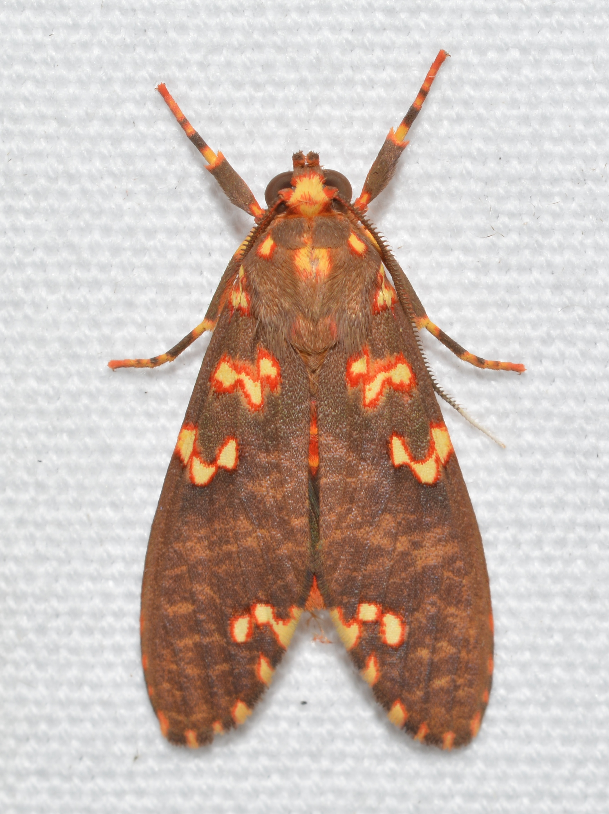 Costa Rica Rancho Naturalista Photos taken between 2/8/16 and 2/14/16 Nick Dowdy wrote: Coiffaitarctia steniptera (Erebidae: Arctiinae).